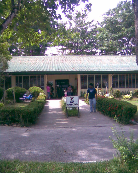 Baybay NHS